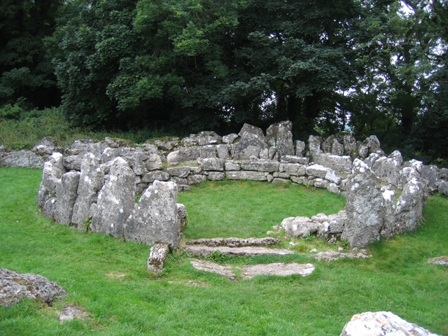 The main house at Din Lligwy. This is believed to be the main house of the Romano-British settlement of Din Lligwy, and it is situated at the north west corner of the site. The artist's impression at the entrance to the site shows that the low stone walls would have been surmounted with a conical wooden frame covered with thatch. See 952995